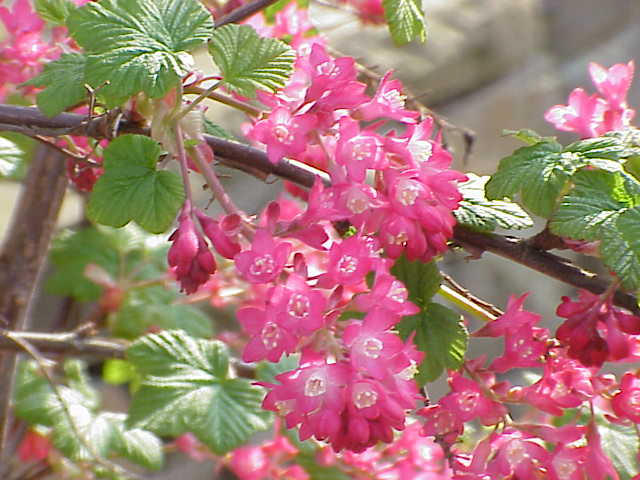 Species: Ribes sanguineum Family: Grossulariaceae Image No. 1